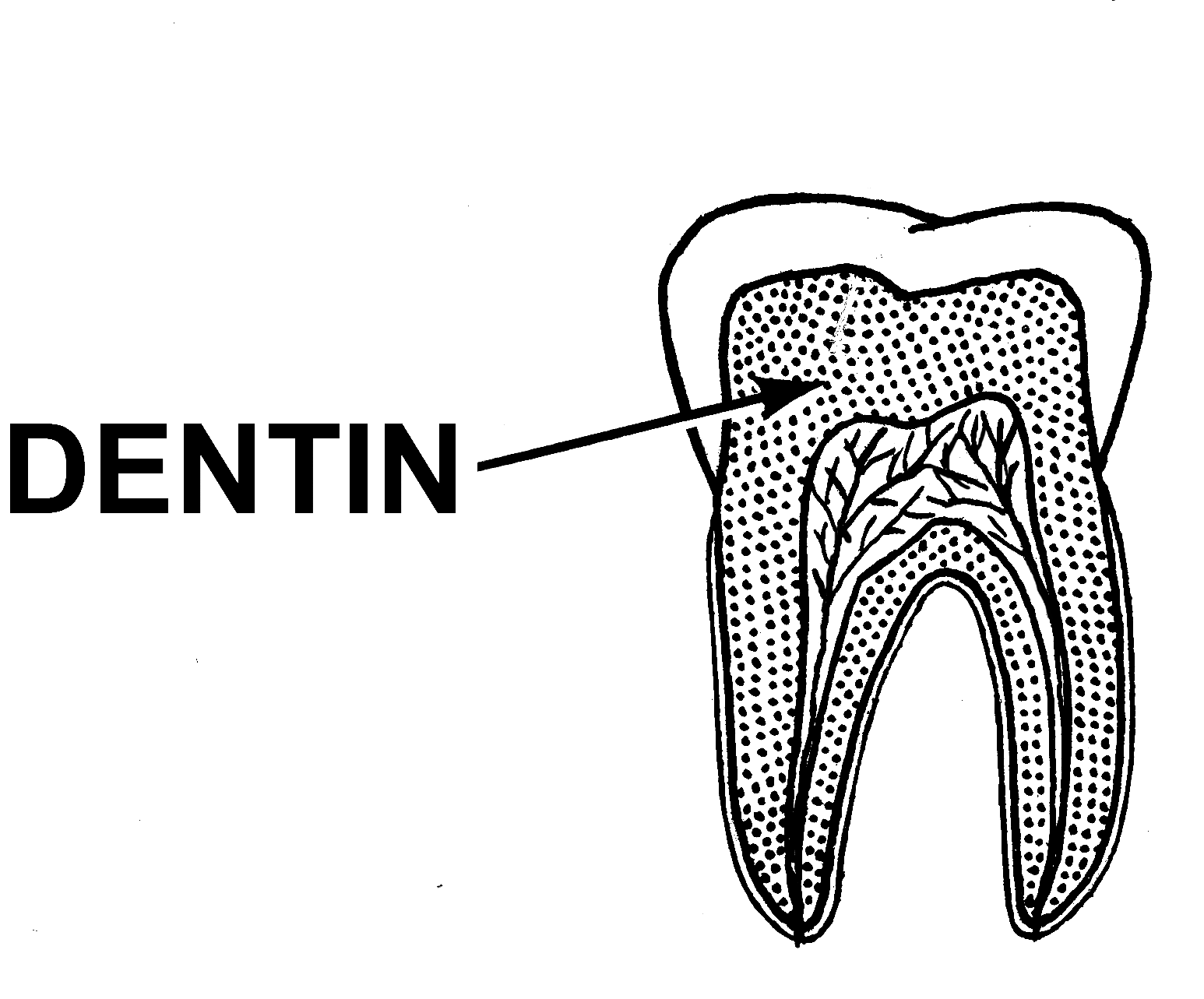 Line art drawing